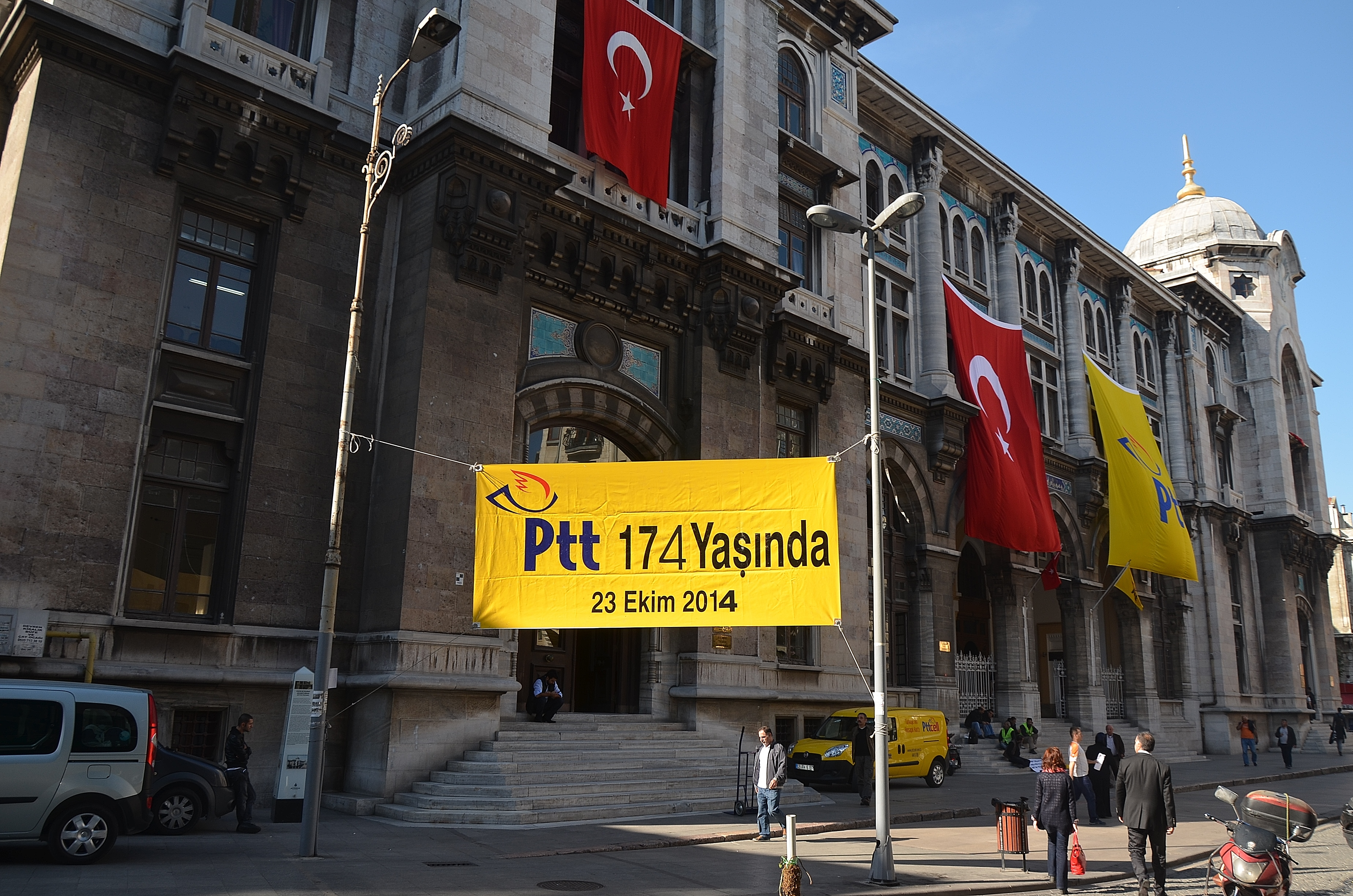 Grand Post Office Building, Istanbul